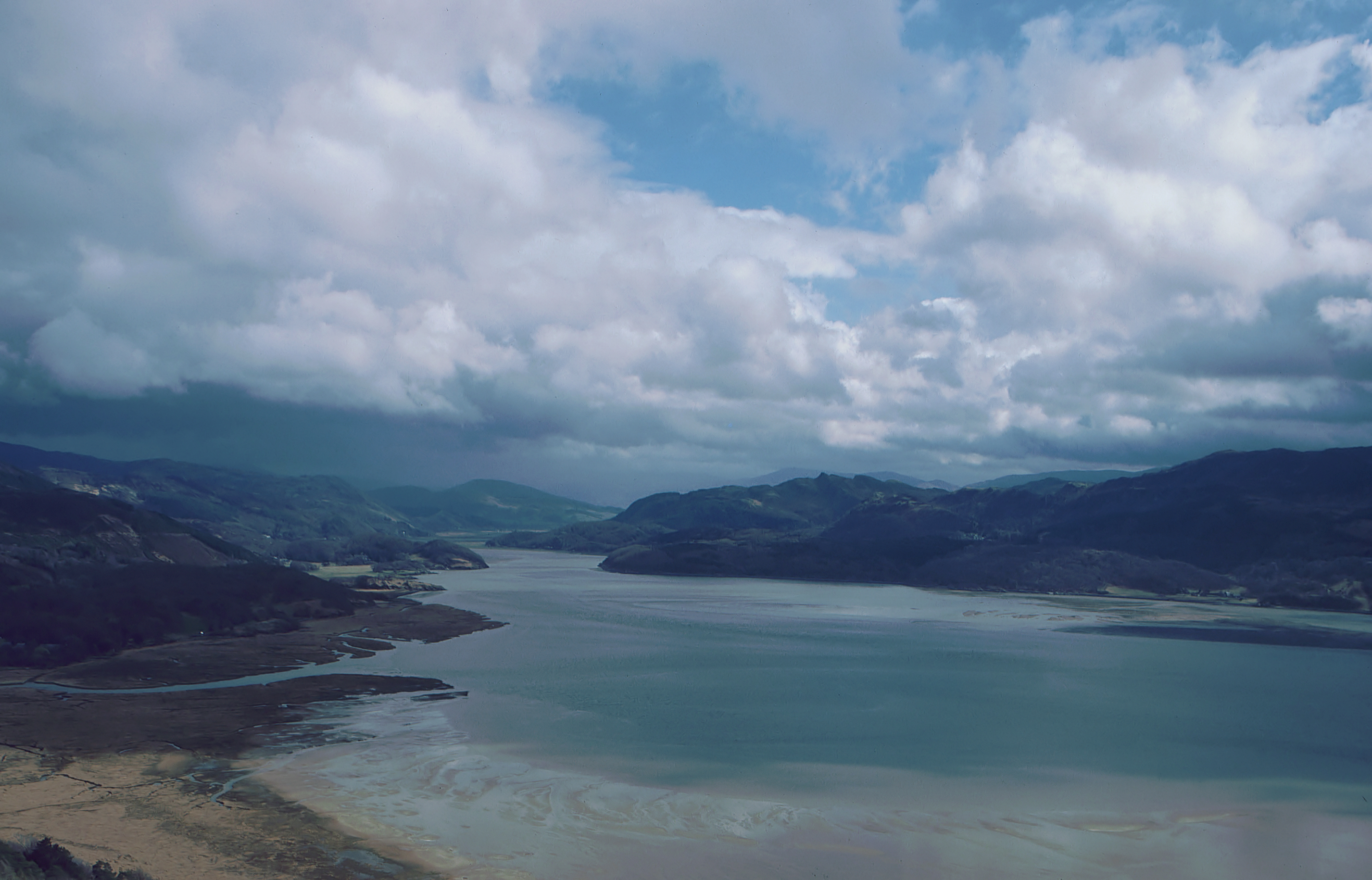 Mawddach estuary in North Wales, GB